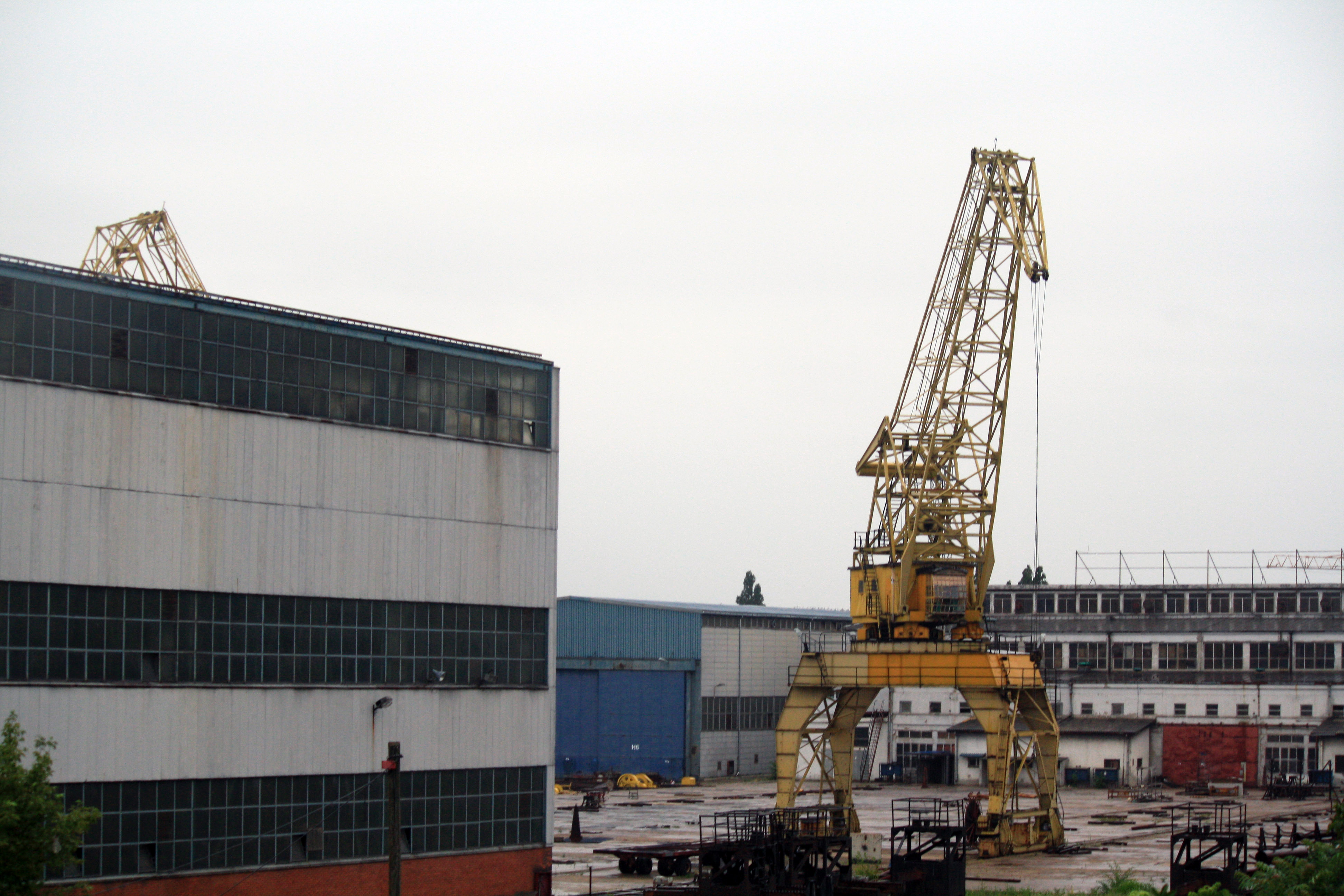 Shipyard crane in Belgrade shipyard.